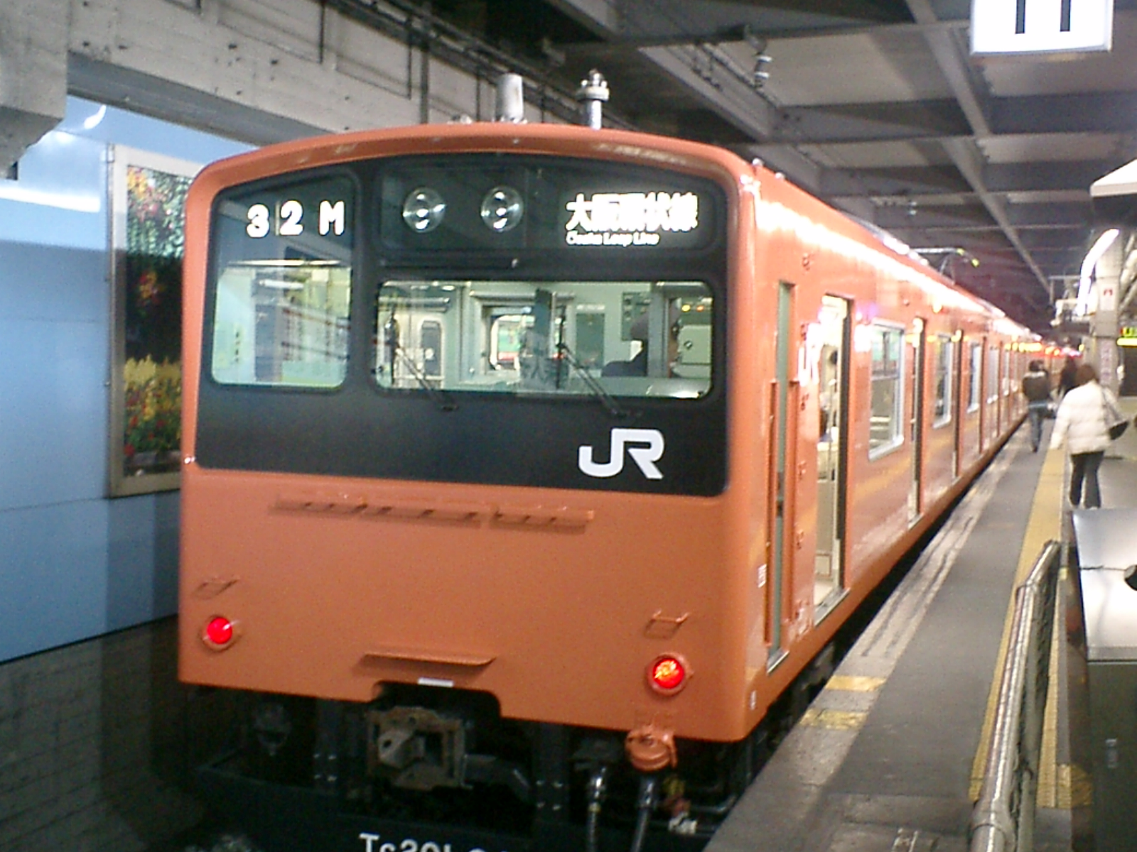 JNR 201 series EMU for Osaka Loop Line at Tennoji Station